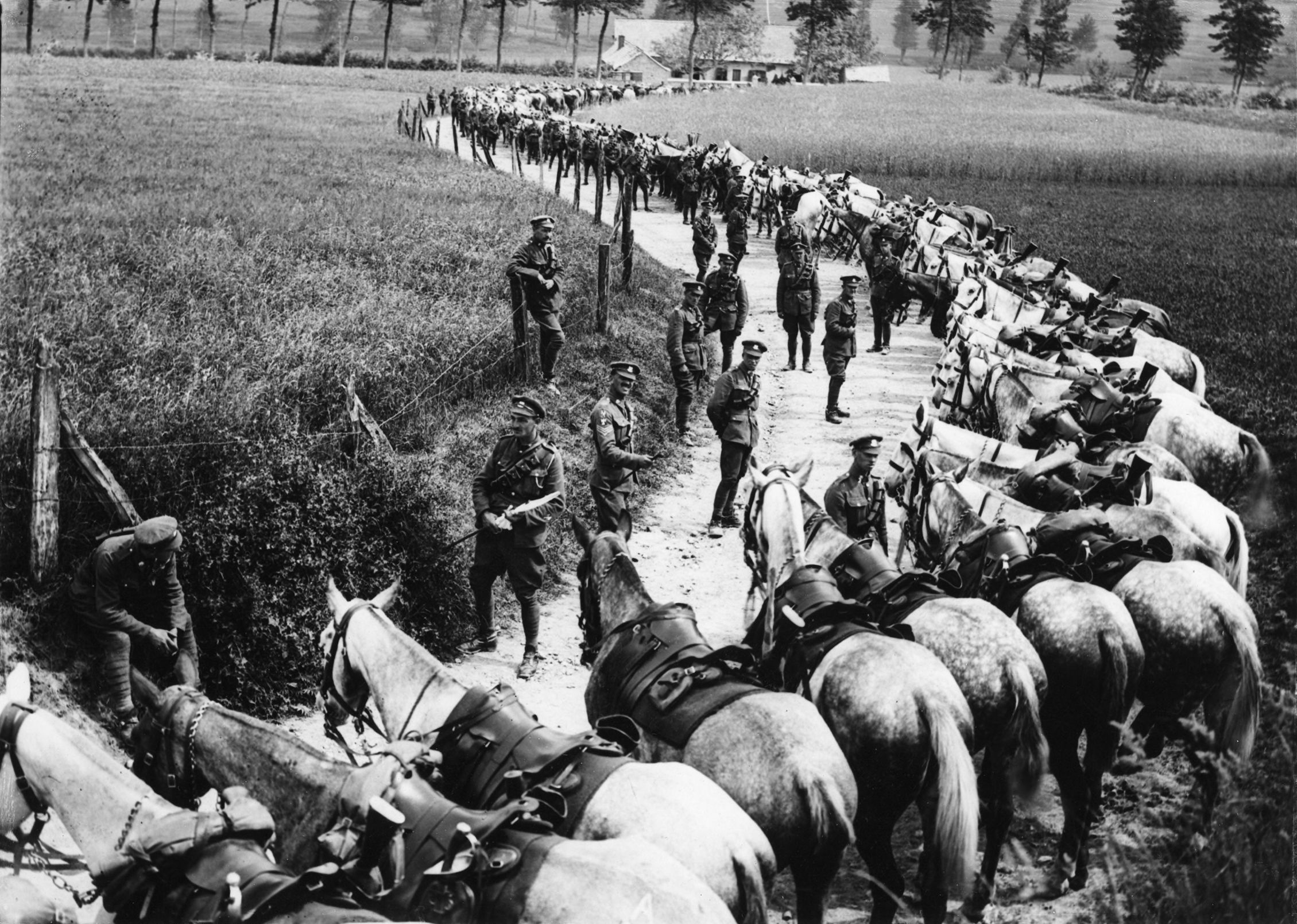 Members of the cavalry resting their horses by the side of the road, in France. The men are milling around in front of their horses. They all look fairly glad to be having a rest. The line of dapple grey horses, standing side by side, can be seen stretching into the distance. They are on a long, narrow road that winds its way through farmland. In the distance there is a house and a row of trees. Whilst many images were deliberately taken as propaganda, some, like this, simply document the experiences of war. [Original reads: 'OFFICIAL PHOTOGRAPHS TAKEN ON THE BRITISH WESTERN FRONT IN FRANCE. - Cavalry in training. The Greys resting on the roadside.']